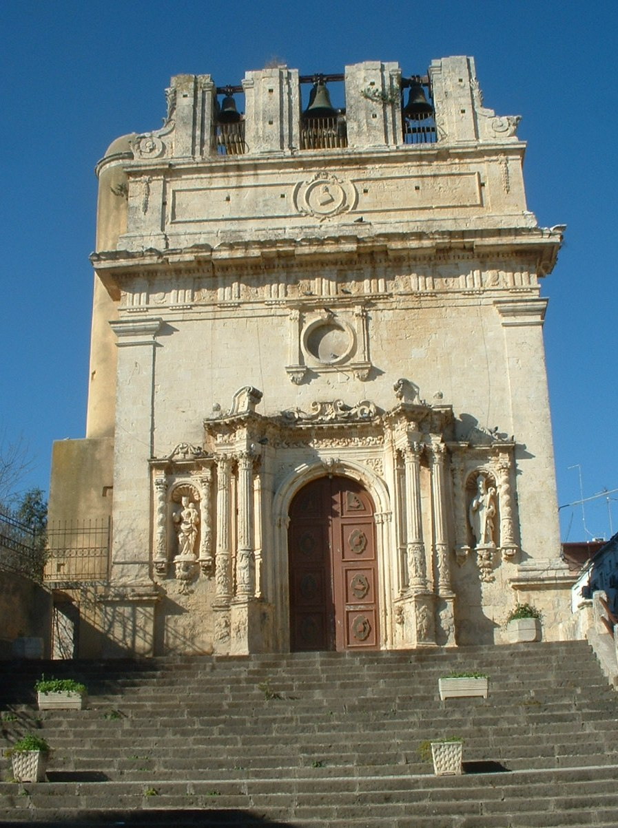 Cassaro (SR), Church of S. Antonio Abate